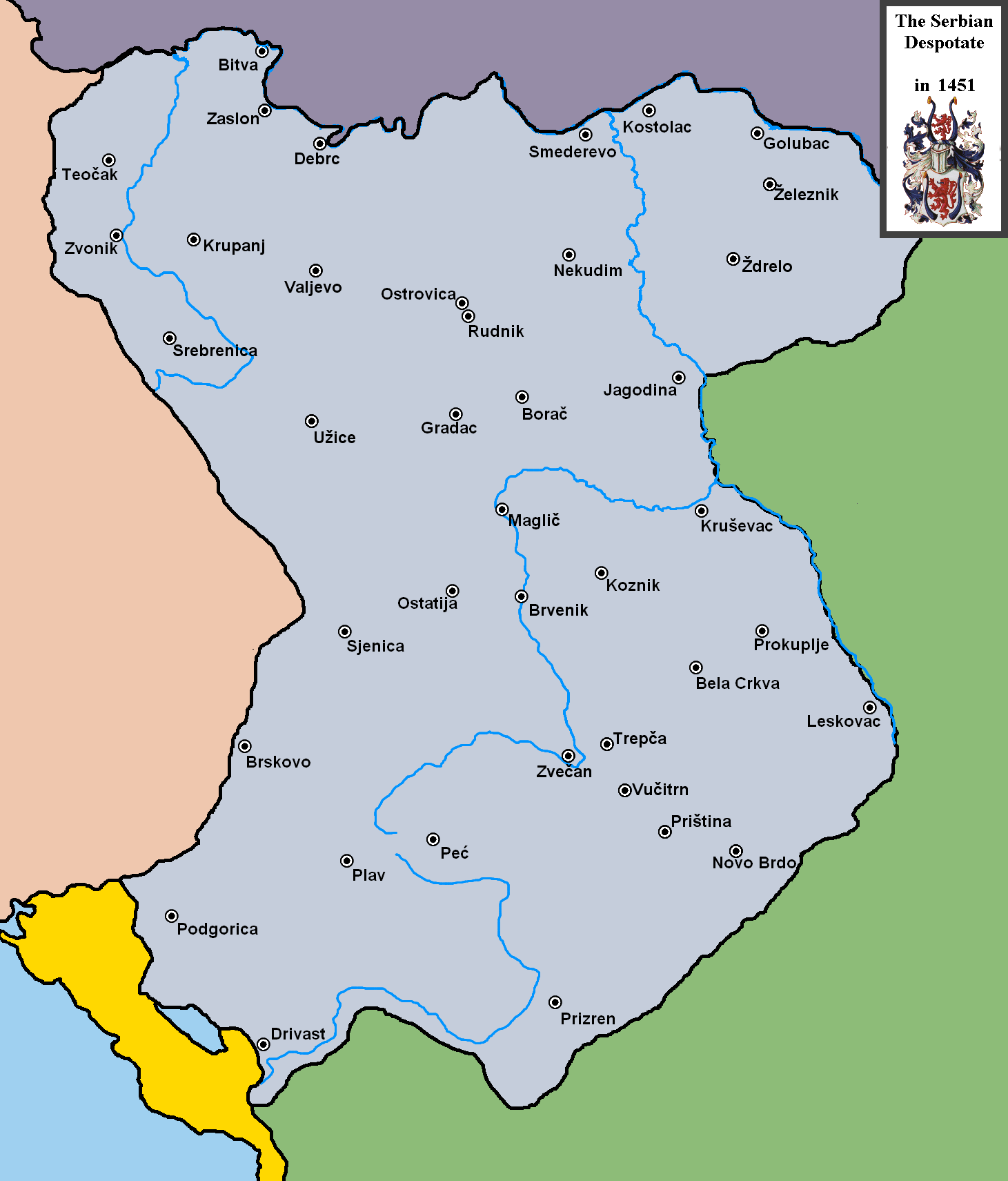 Source: Andrija Veselinović, Država srpskih despota, Belgrade 2006 Istorijski Atlas (Zavod za udžbenike i nastavna sredstva), Belgrade 2004